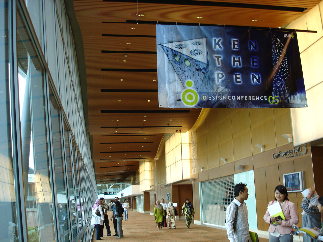 The interior of Kuala Lumpur Convention Center.